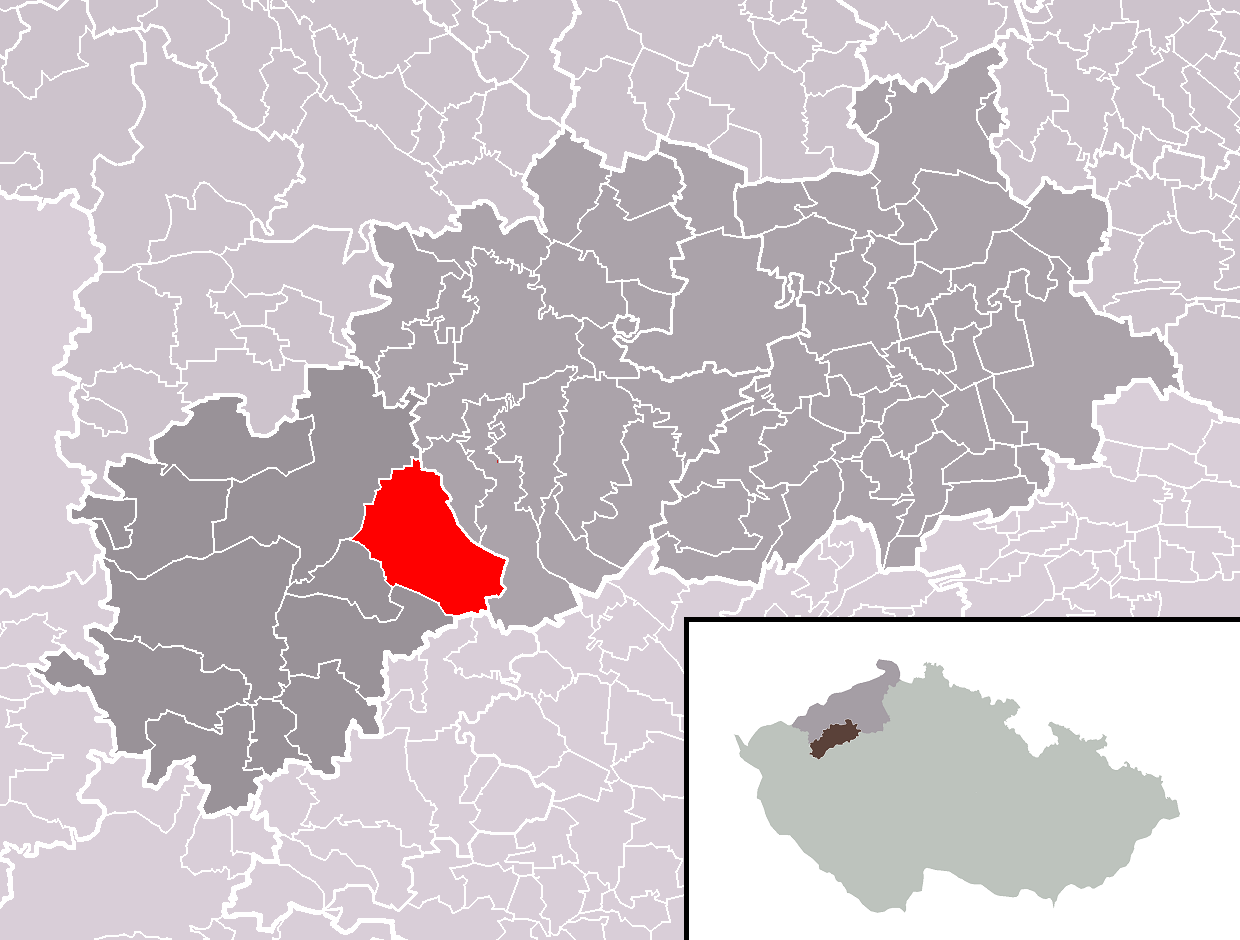 Location of Blšany town within Louny District and administrative area of Podbořany as a Municipality with Extended Competence.